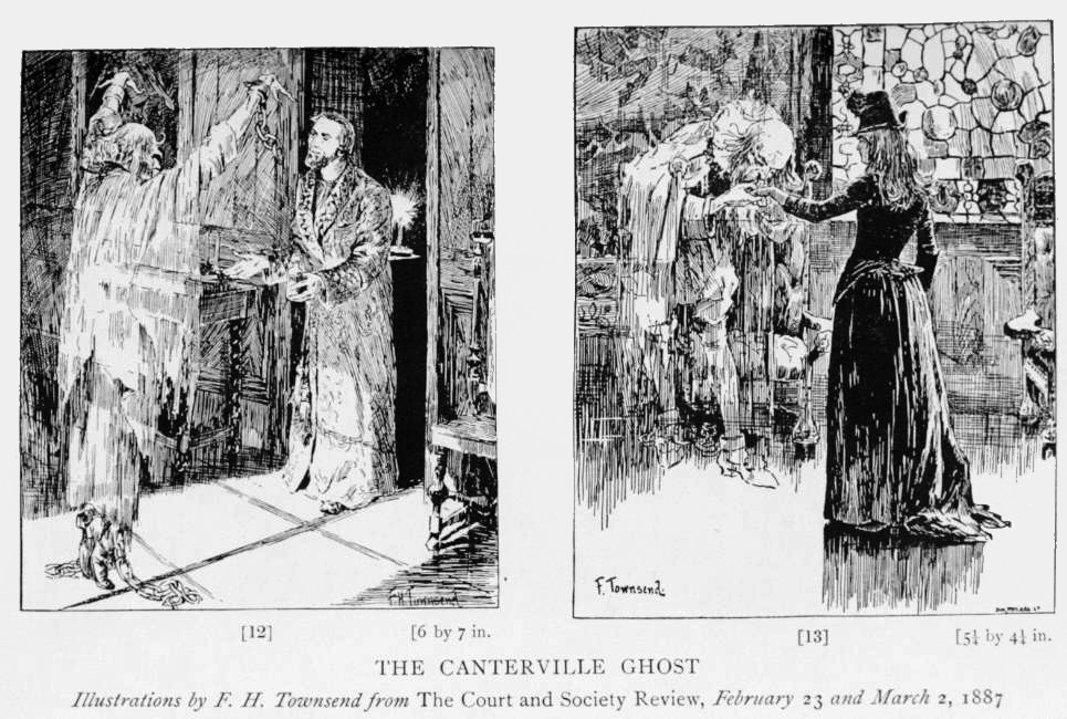 Book illustration